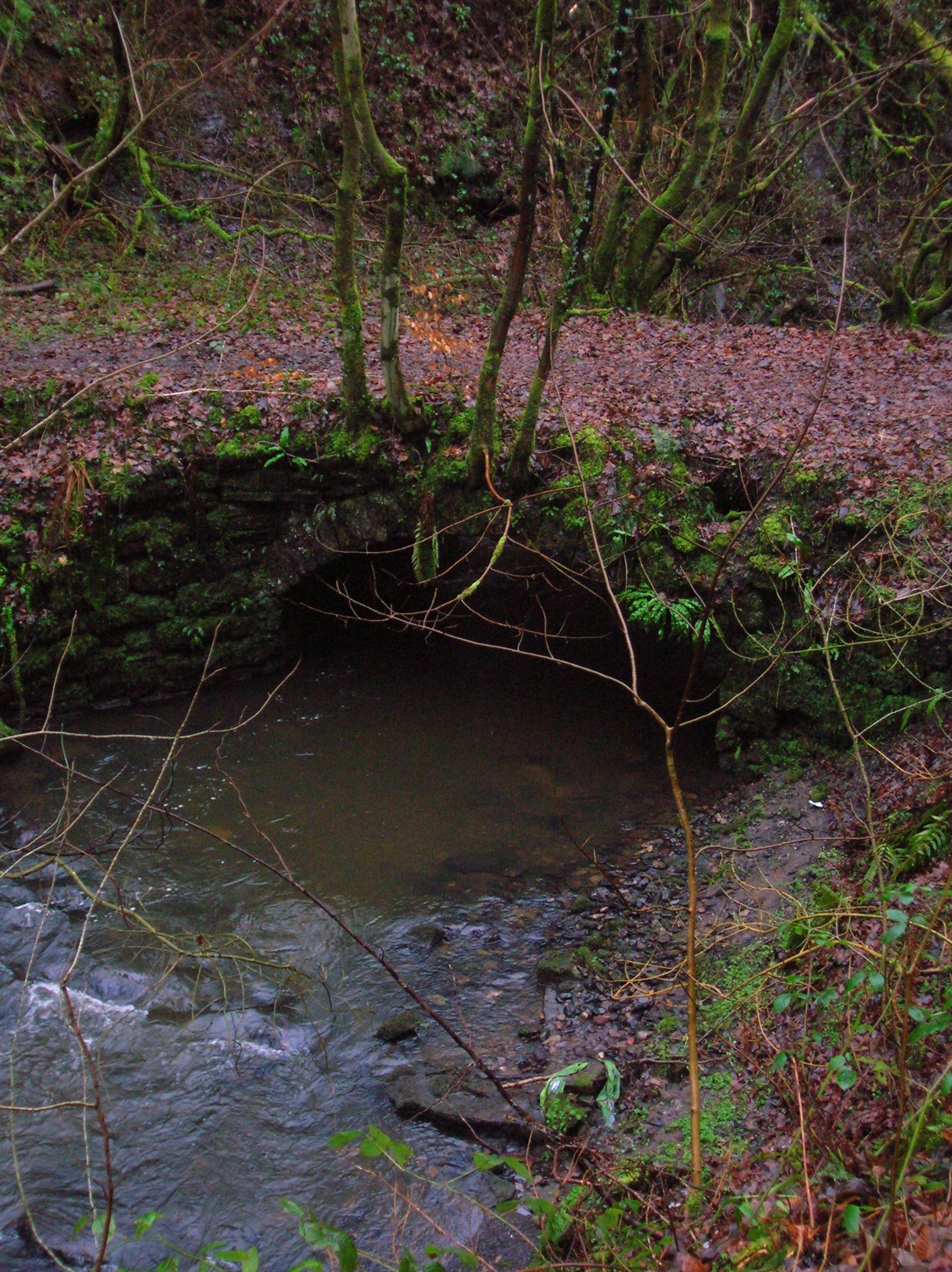 The old mill bridge over the Powgree Burn at Kersland Mill, Longbar, North Ayrshire, Scotland